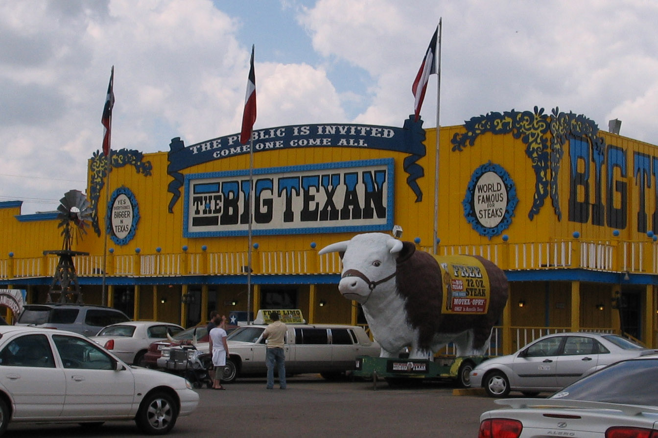 The Big Texan steakhouse in Amarillo, Texas, which was made famous by offering visitors a free 72 ounce (2 kg) beef steak if they eat it in under an hour. Taken on May 29, 2005.